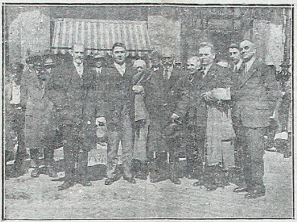 Ante Pavelić and Gustav Perčec with the Macedonian National Committee in fron of Union Palace Hotel in Sofia, 20 April 1929.